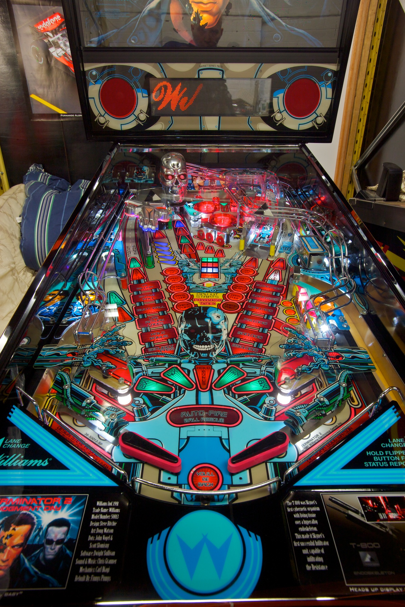 Rebuilt by Wayne Patrick Finn of Finny's Pinnys Melbourne Australia. This machine was originally manufactured by Williams Inc. USA in 1991. This one was fully restored to better than factory condition for a private collector. Every item was restored to new condition via re-plating of all metal parts with chrome, powder coating and-or two-pac epoxy coatings. Incandescent lamps were replaced with LED's. Plastics, Rubbers and glass were also replaced. The game feels fantastic to play and was well worth the restoration effort.